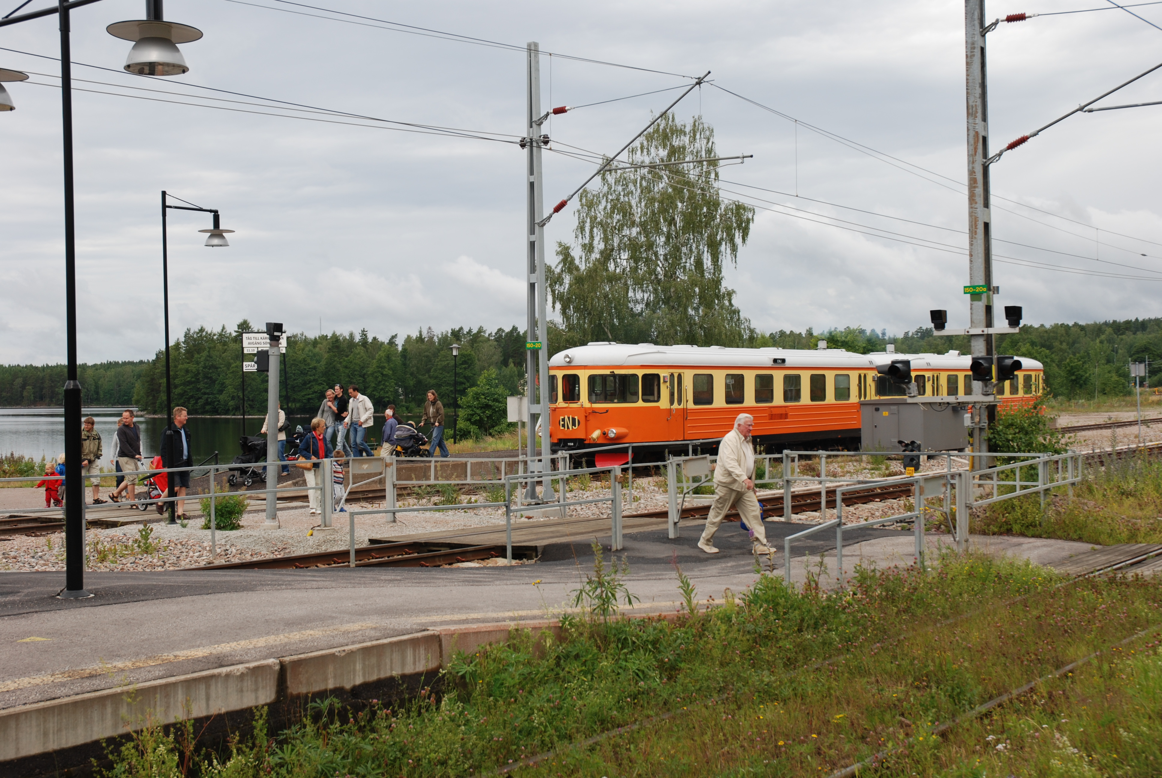 Two veteran Y7 railcars of ENJ Museum Railway Association at Ängelsberg Railway Station, Sweden. Photo: Bengt Oberger